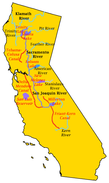 Map of California with the Central Valley Project: facility names in red. greatly affected watercourses and reservoirs in dark blue. unaffected watercourses in light blue. aqueducts in red.